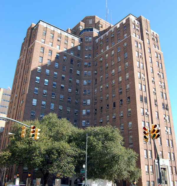 Photo of Virginia Commonwealth University West Hospital from the corner of Broad and 12th Streets, Richmond, Virginia